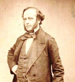 Edward Orange Wildman Whitehouse - Chief Electrician of the First Trans-Atlantic Telegraph of 1858.